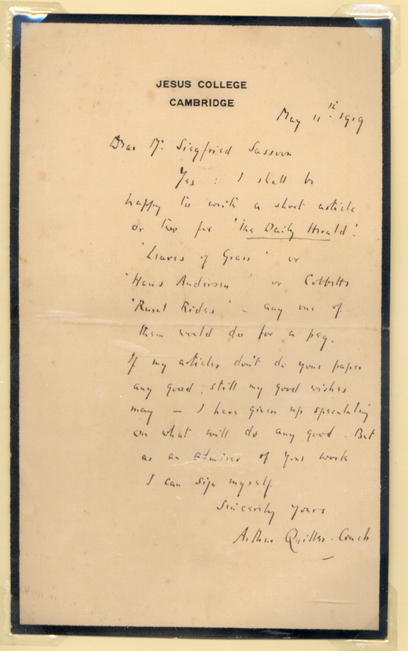 Scan of a handwritten letter from Arthur Quiller-Couch to Siegfried Sassoon. Dated May 11th 1919, and with note paper in black mourning trim. = Jesus College Cambridge May 11th 1919 Dear Mr. Siegfried Sassoon Yes : I shall be happy to write a short article or two for "The Daily Herald". "Leaves of Grass" or "Hans Anderson" or Cobbett's "Rural Rides" -- any one of them would do for a peg. If my articles don't do your paper any good, still my good wishes may -- I have given up speculating on what will do any good. But as an admirer of your work I can sign myself Sincerely yours Arthur Quiller-Couch